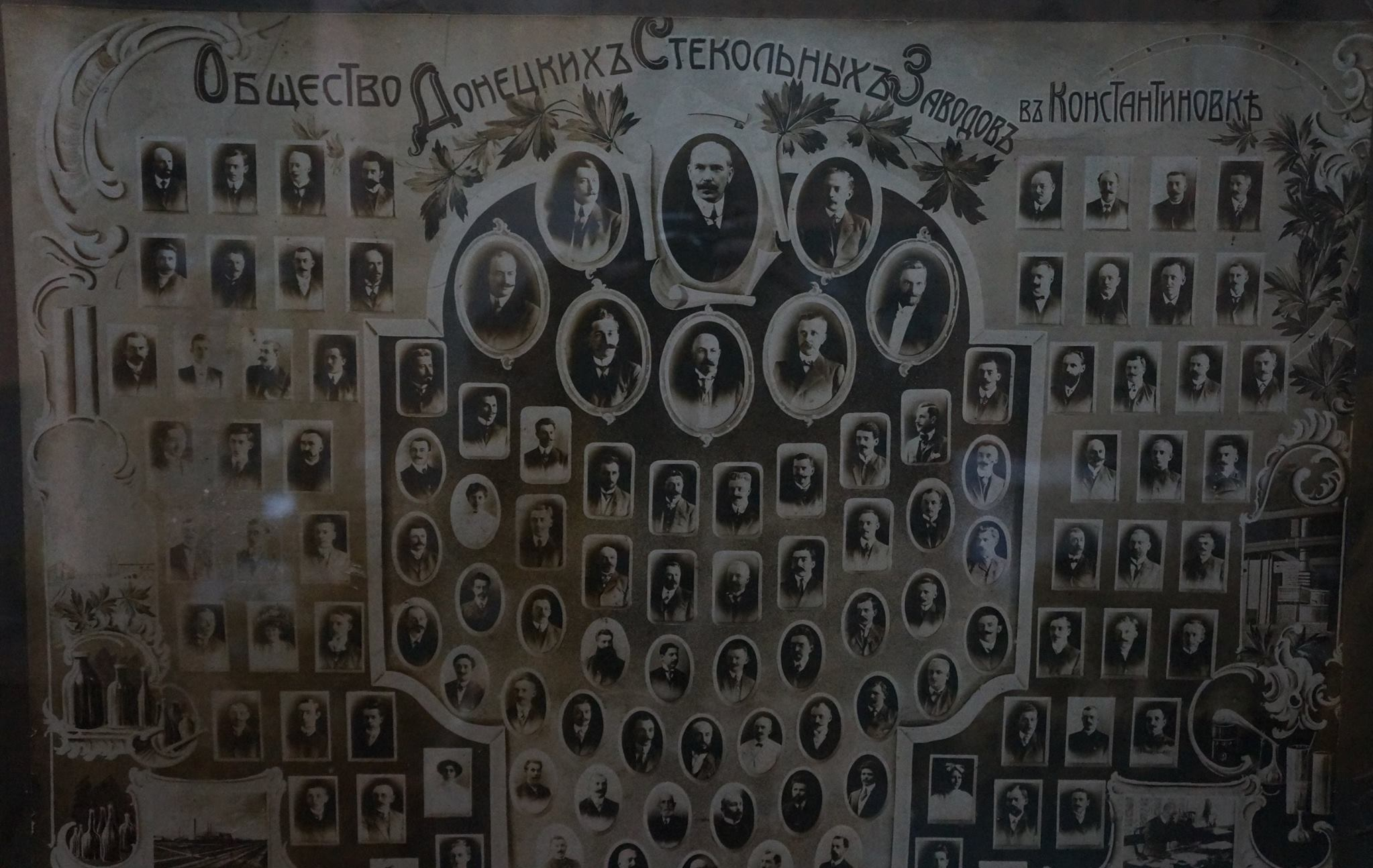 The stuff of Donetsk Glass Manufacture at Kostyantynivka